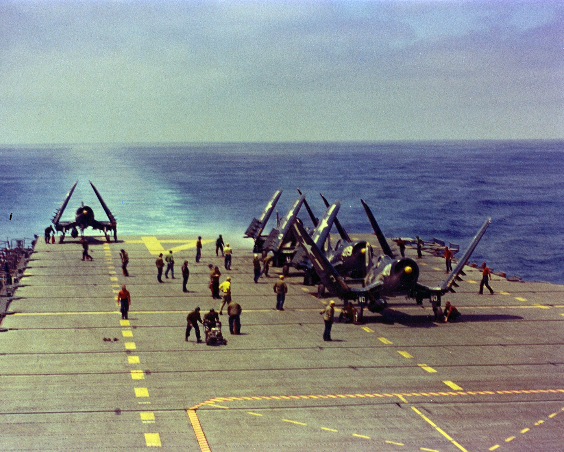 U.S. Navy Vought F4U-4 Corsair aircraft of Fighter Squadron VF-874, Carrier Air Group 102 (CVG-102), lining up to take off on the deck of the aircraft carrier USS Oriskany (CV-34) off Southern California (USA), on 15 August 1952.